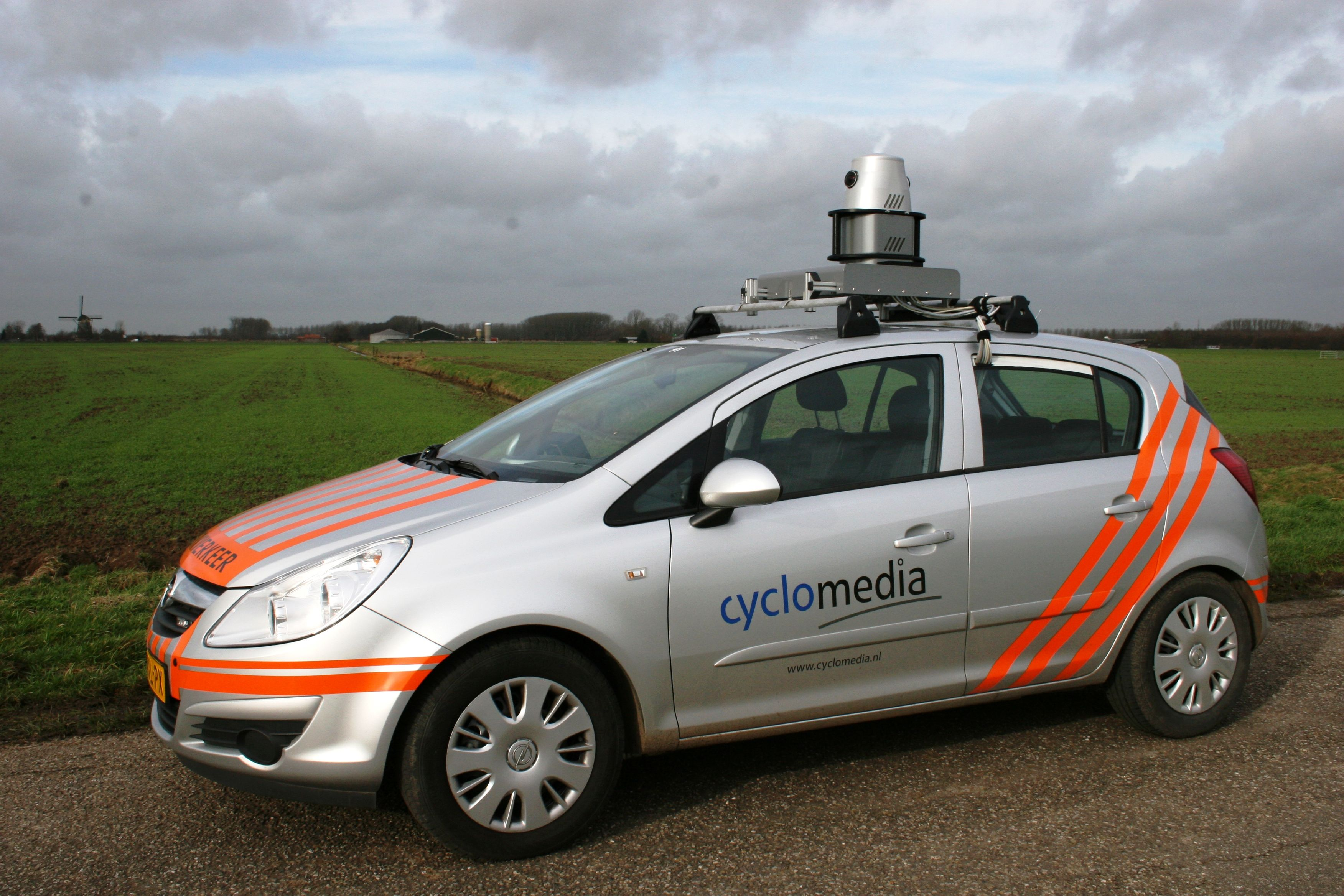 DCR 7, Cyclomedia